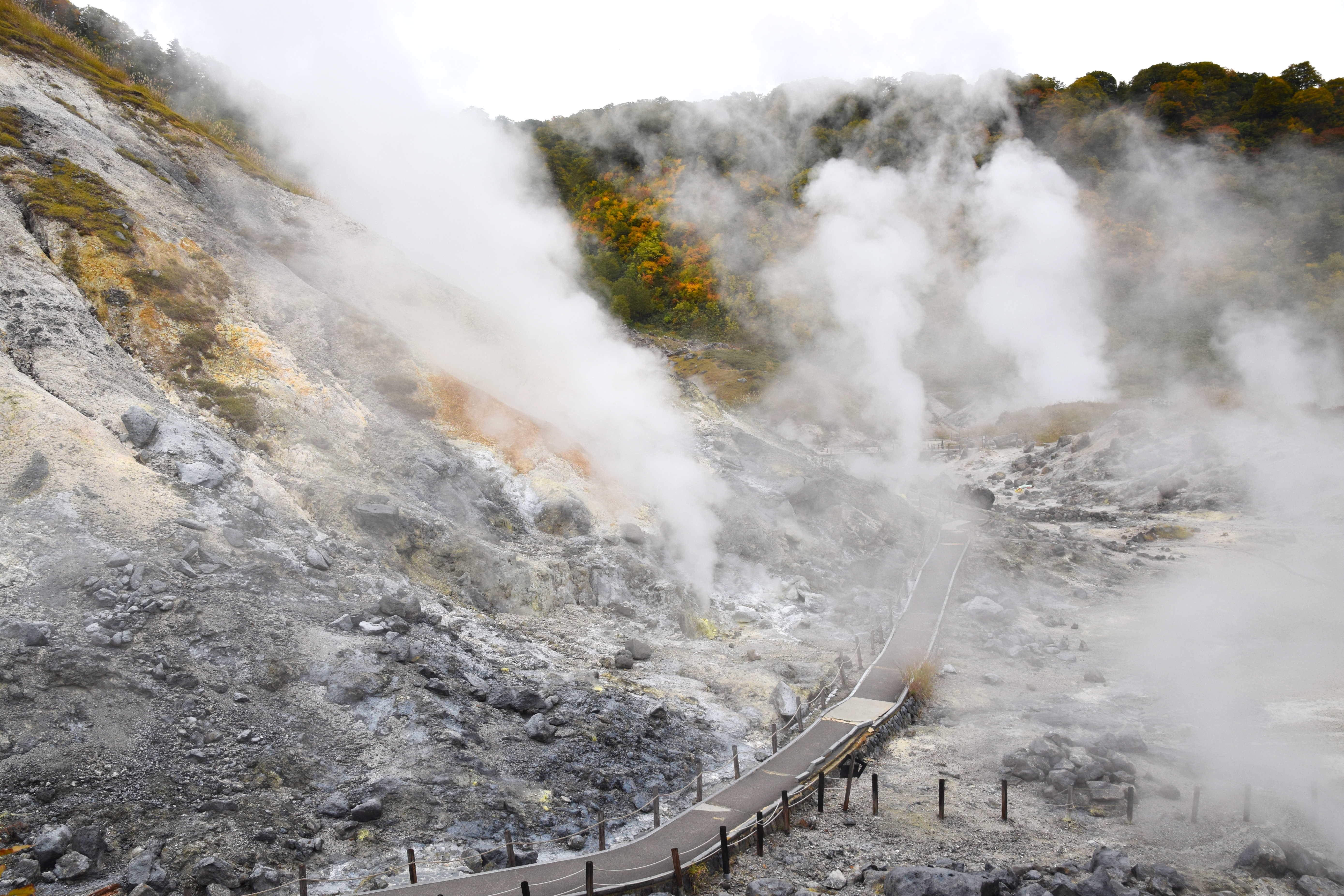 A view of Tamagawa Onsen in Semboku, Akita Prefecture Japan.